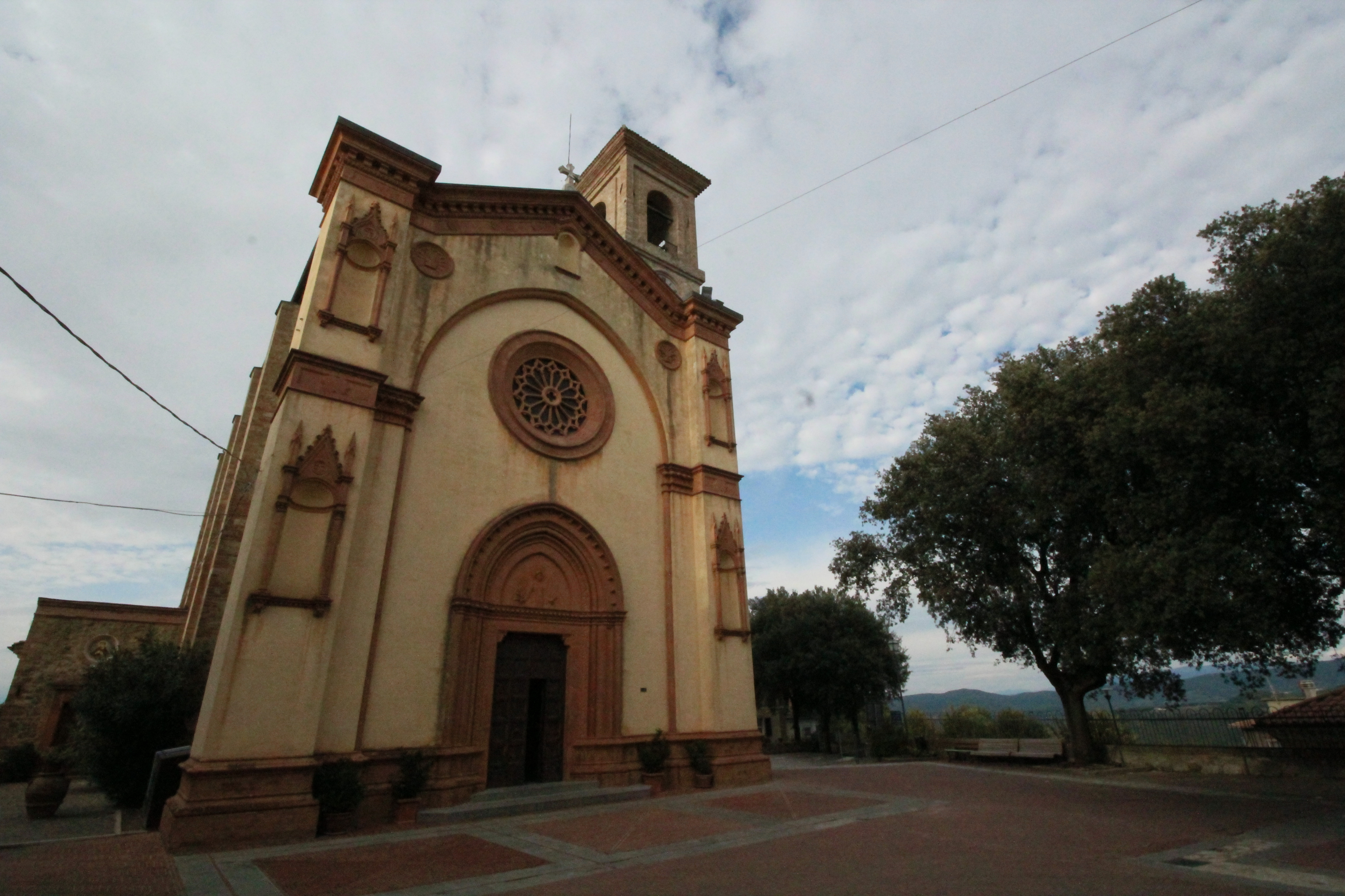 Facade of the Church Chiesa di San Lorenzo in the city center of Collazzione, Province of Perugia, Umbria, Italy